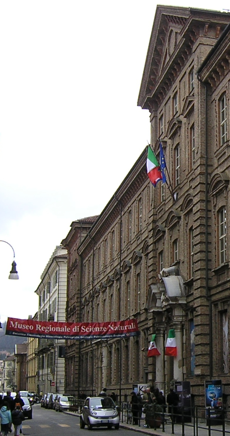 Entrance of the natural sciences museum, Turin (Italy)